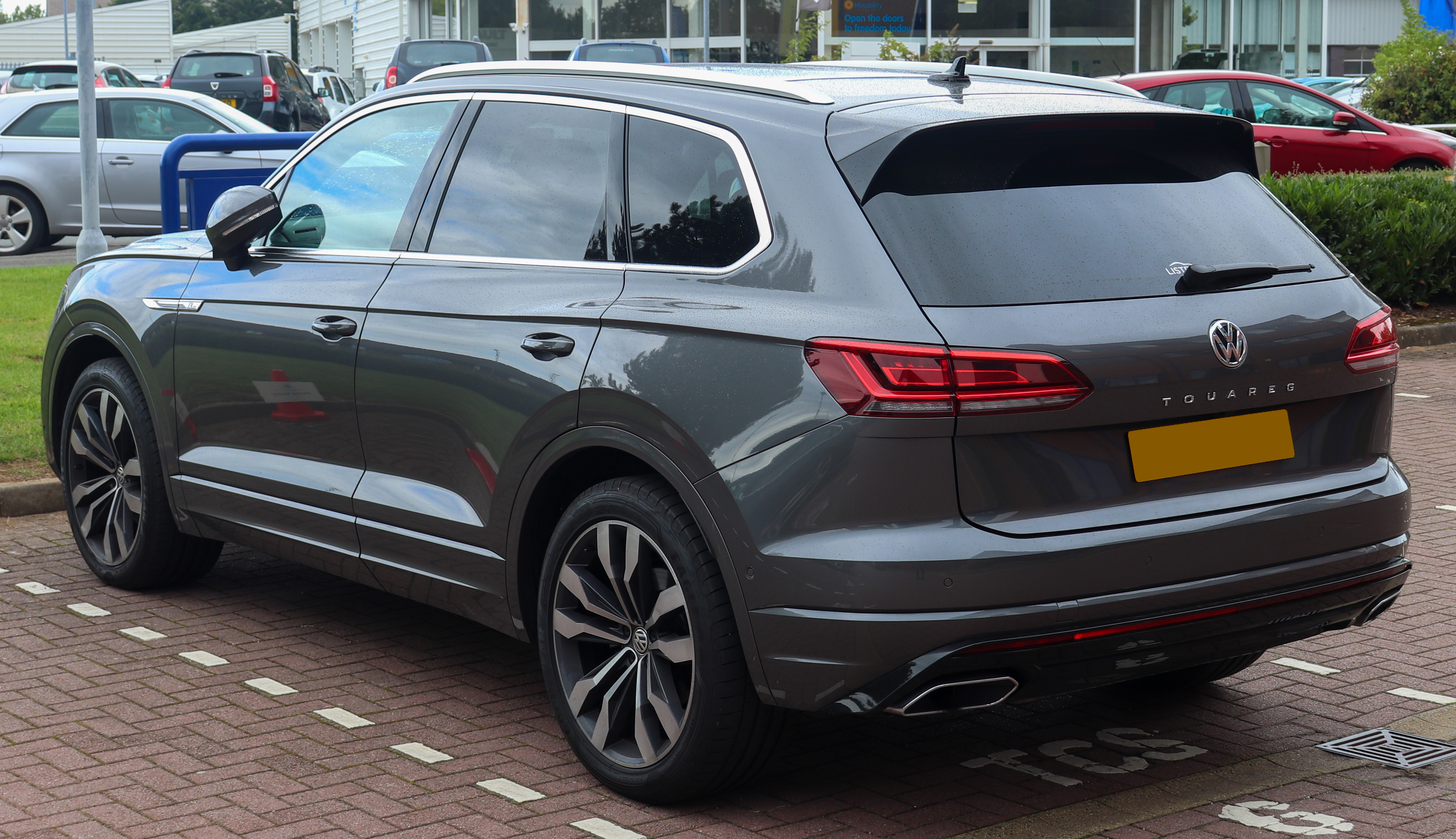 2019 Volkswagen Touareg V6 R-Line Tech TD 3.0 Rear Taken in Leamington Spa